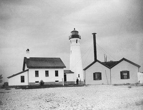 Skillagalee Island Light Station on Ile Aux Galets U.S. Coast Guard Historic Light Station Information & Photography: Michigan